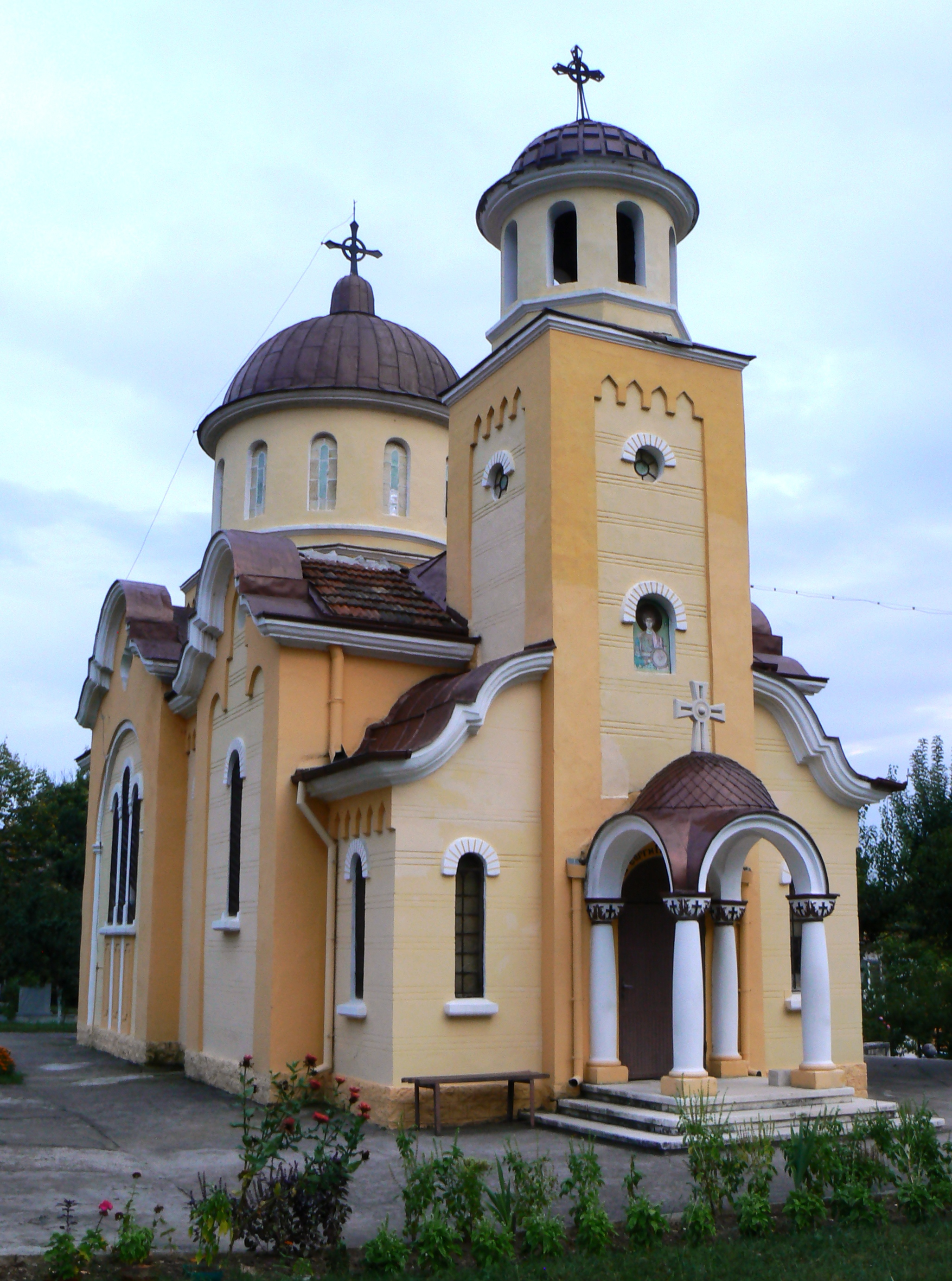 The church "Saint George" in Mezdra, Bulgaria